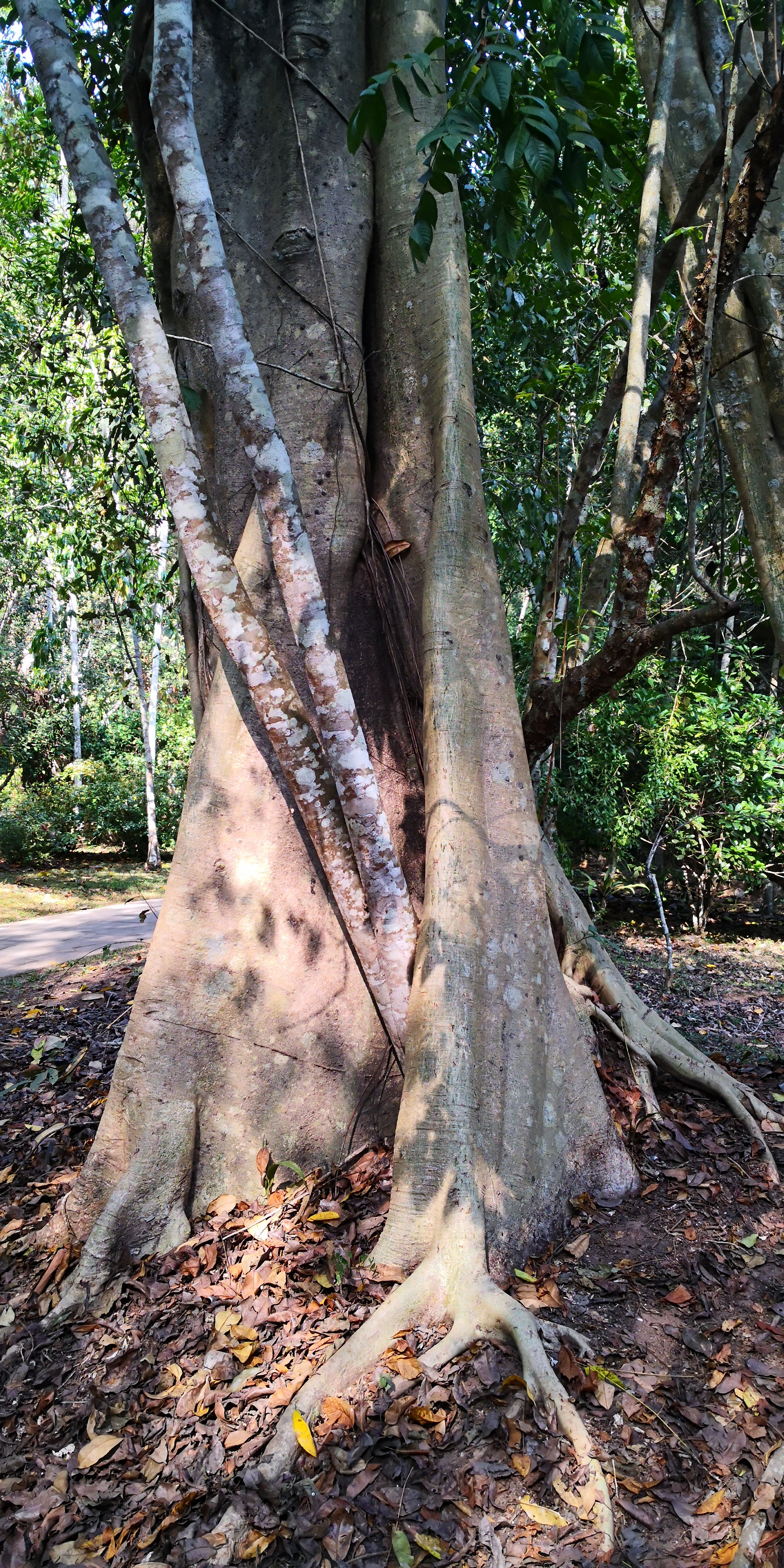 Ficus maclellandii – Stem with bark. January 2020. Location: CAS XSB Botanical Garden, Mengla, Xishuangbanna, Yunnan, SW China.21.927822, 101.253311.